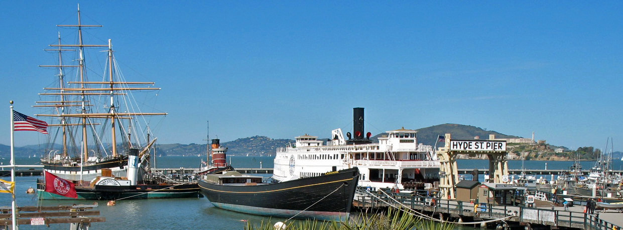 National Register of Historic Places in San Francisco, California. Historic ships at Hyde Street Pier, San Francisco Maritime National Historic Park, San Francisco, California, USA. Photographed 2008-03-08 by Mike Hofmann from the rear balcony of the South End Rowing Club, 500 Jefferson St, San Francisco. Ships from left to right: "Balclutha" (square-rigged sailing ship), "Eppleton Hall" (paddlewheel tug with white smokestack), "Hercules" (steam tug with red smokestack) "C. A. Thayer" (schooner in renovation) and "Eureka" (steam ferry boat with black smokestack). The main mast of the scow schooner, "Alma" can be seen beyond the "Hercules" smokestack. Alcatraz Island is on the horizon in the right of the photo, beyond the Hype St. Pier sign.